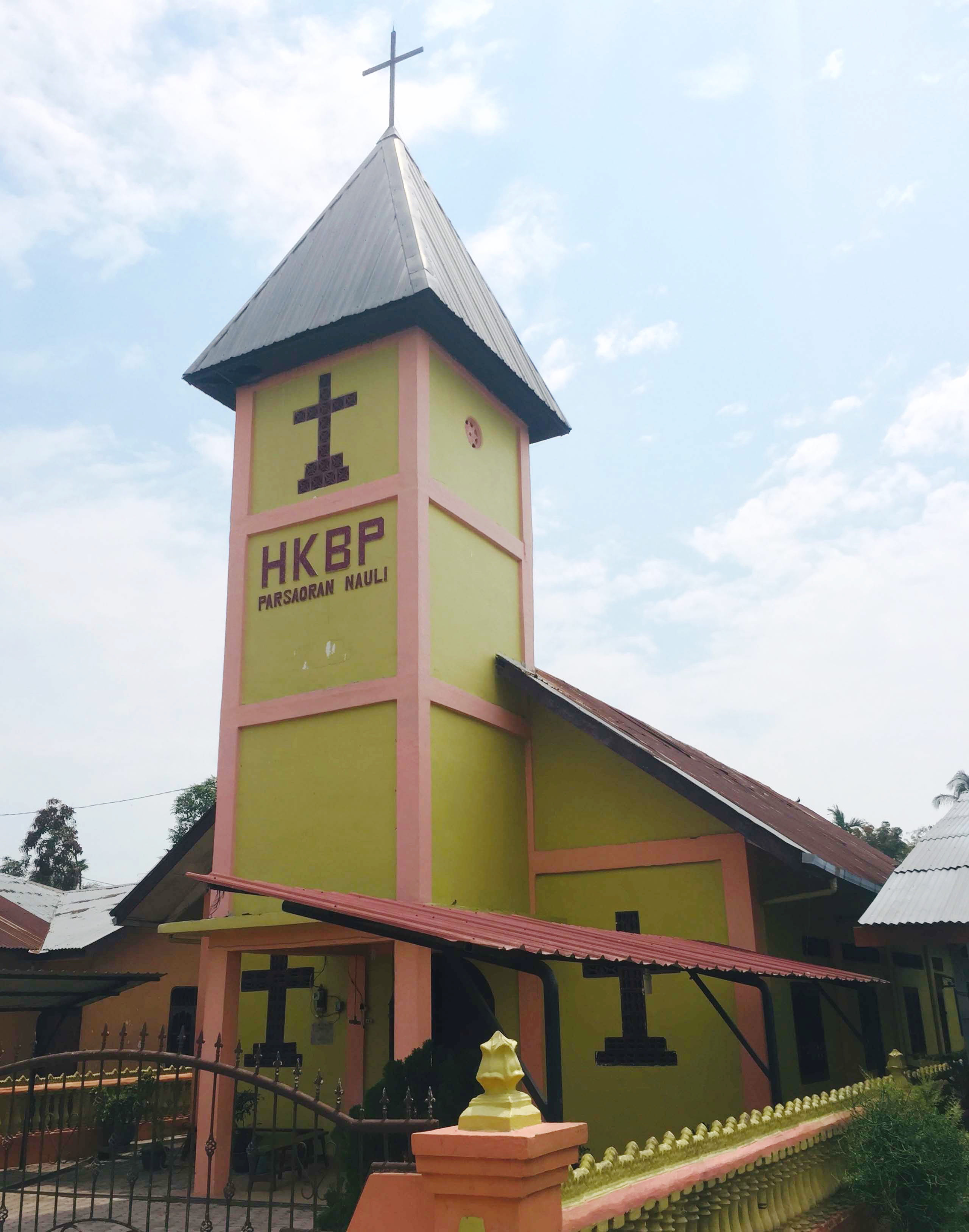 HKBP Parsaoran Nauli, Res. Sialang Buah Church in Sei Buluh, Teluk Mengkudu, Serdang Bedagai